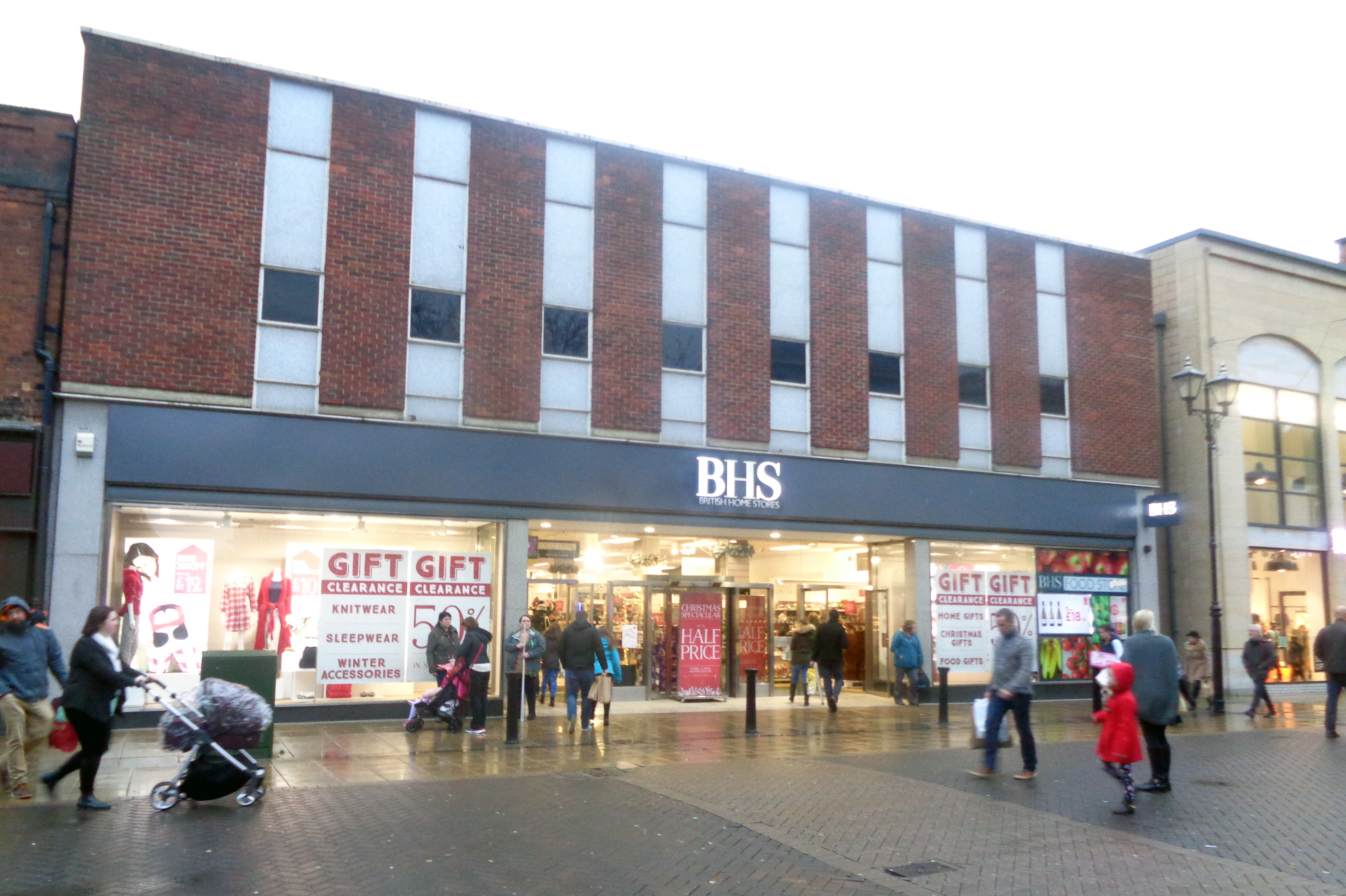 BHS, High Street, Lincoln, Lincolnshire, England. Taken on the evening of Sunday the 13th of December 2015.